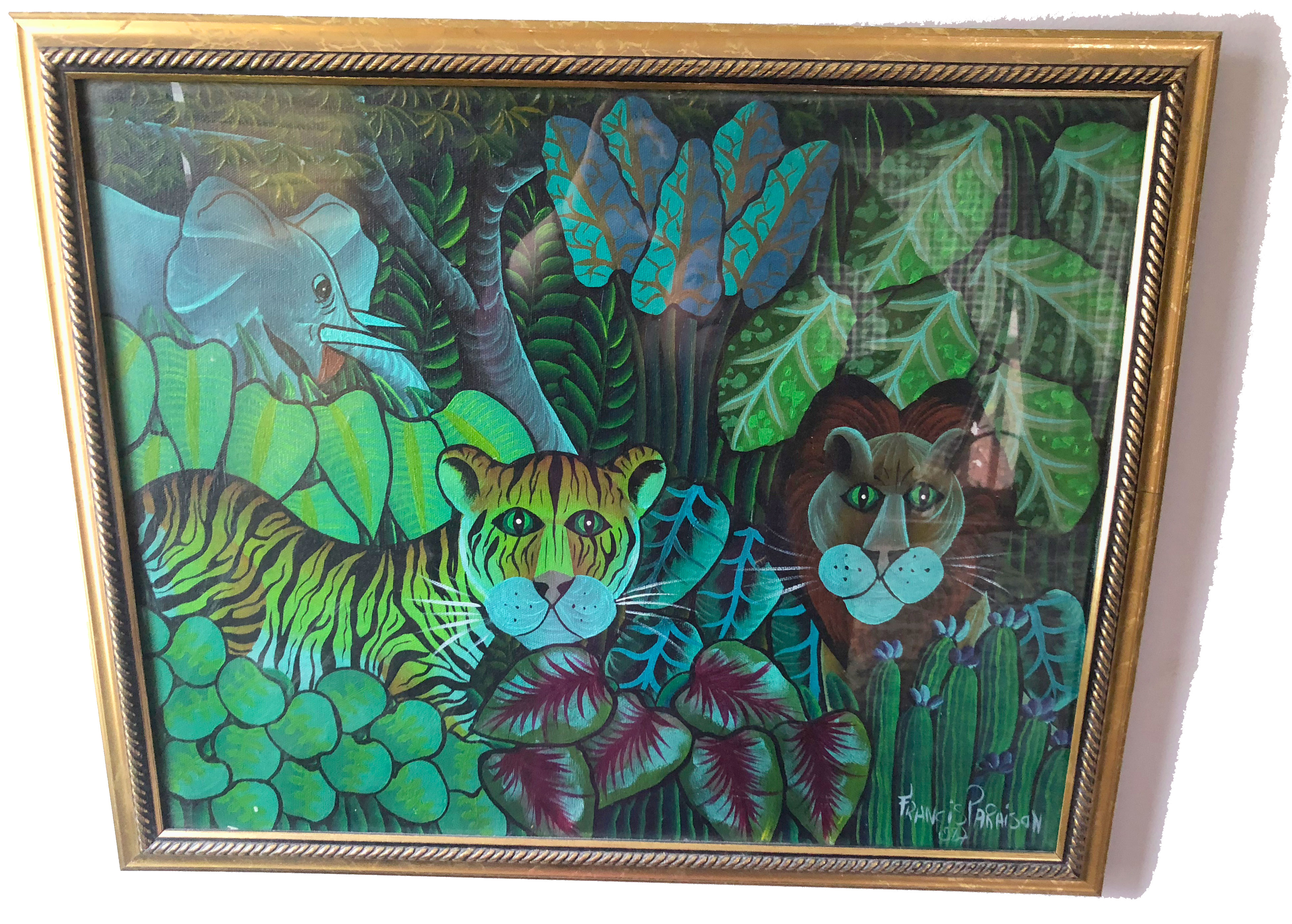 Original painting purchased on 10/24/1987 from Francis Paraison for my birthday.